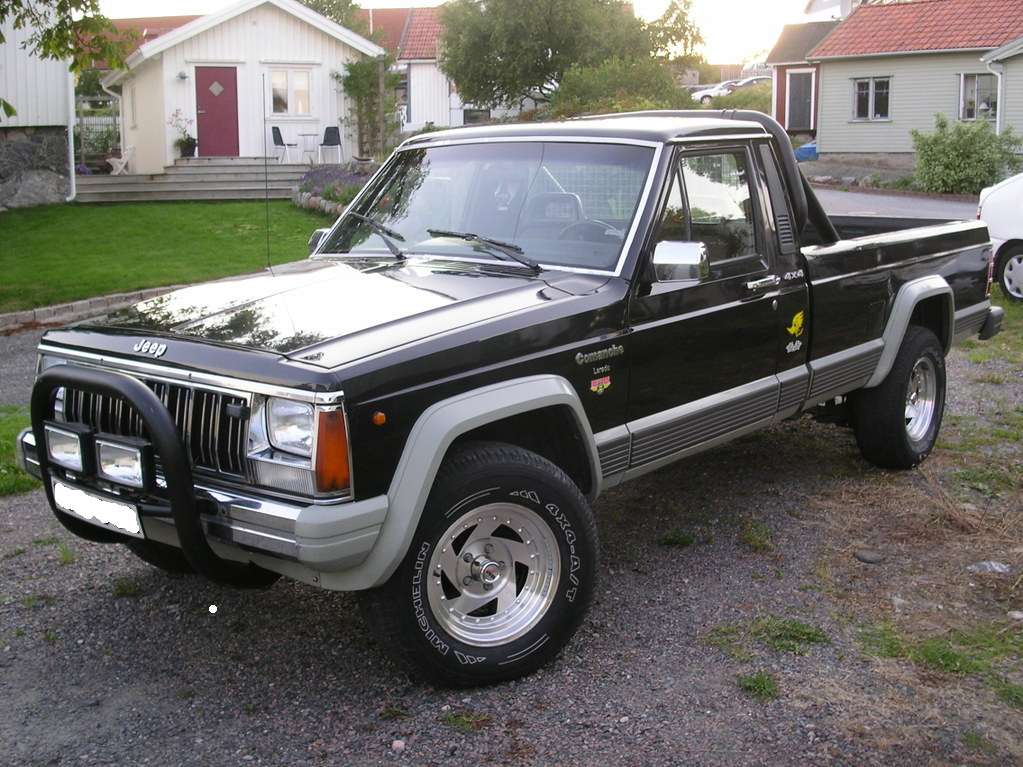 The Jeep Comanche is basicly a pickup truck version of the Jeep Cherokee